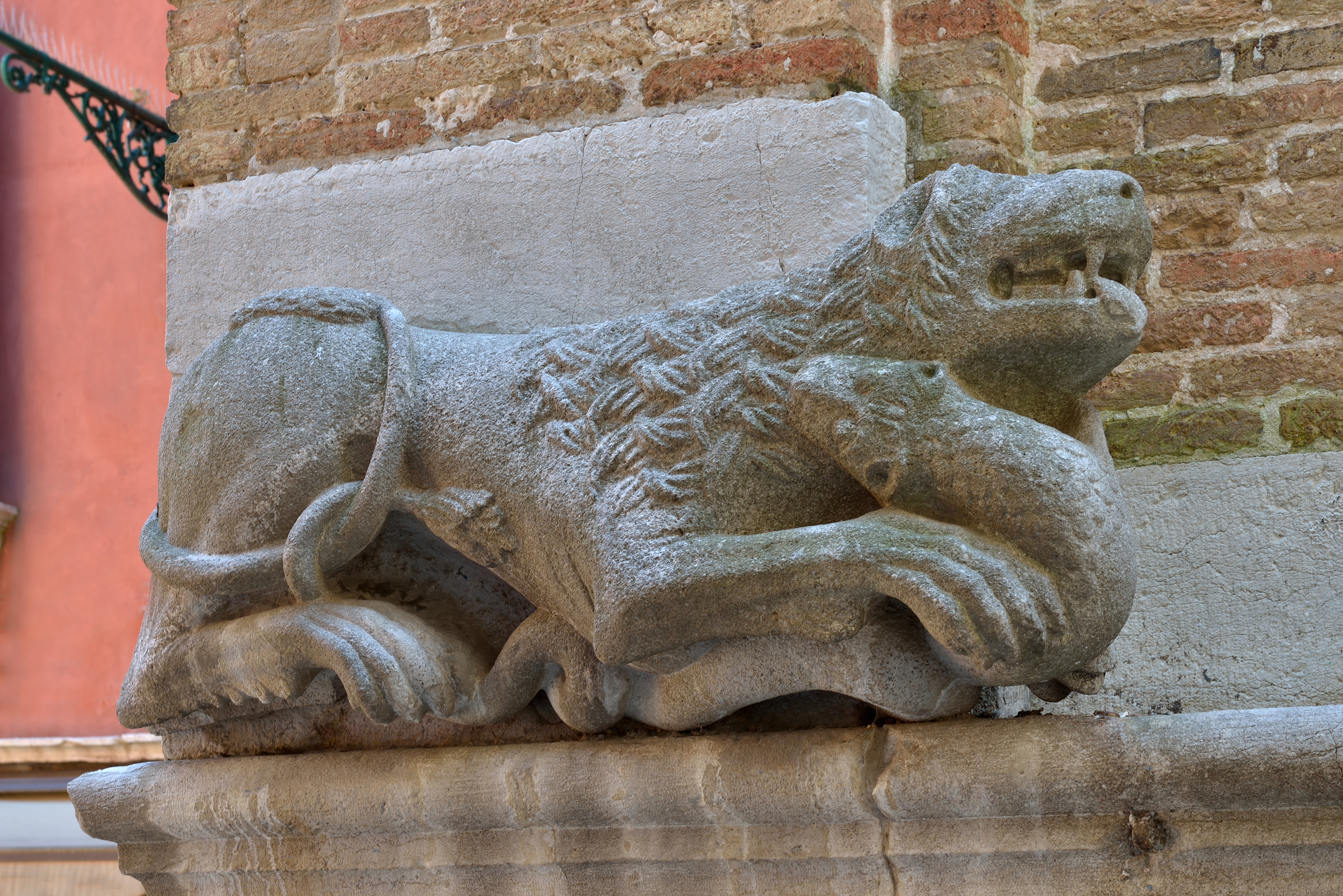 Left lion at the base of the belltower of the San Polo (church) in Venice